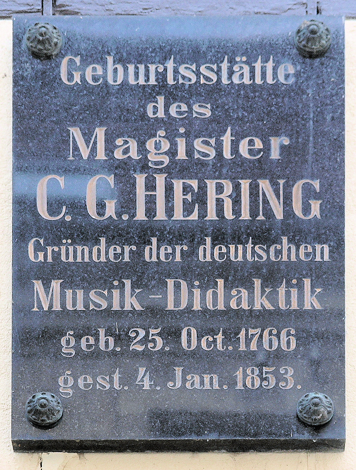 Memorial plaque, Carl Gottlieb Hering, Poststraße 3, Bad Schandau (Sächsische Schweiz), Germany Koordinate:50°55′6″N 14°9′15″E / 50.91833°N 14.15417°E